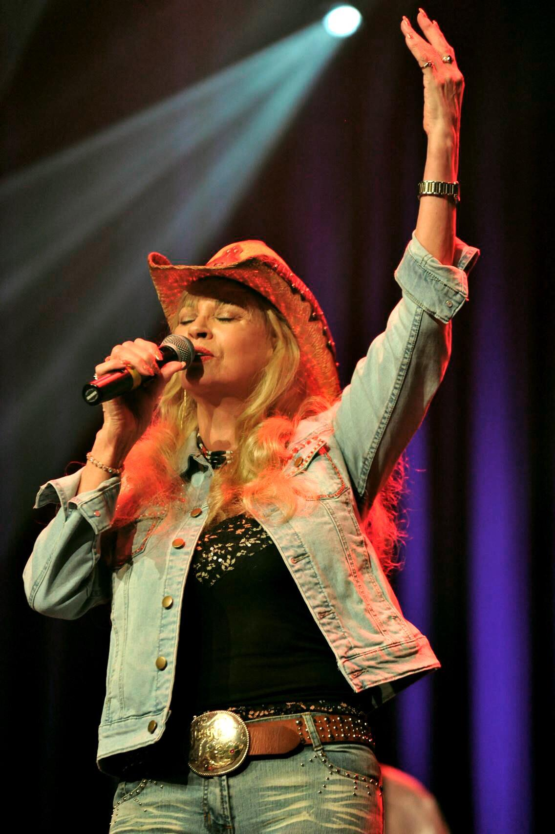 Jean Stafford Live Tamworth 2019